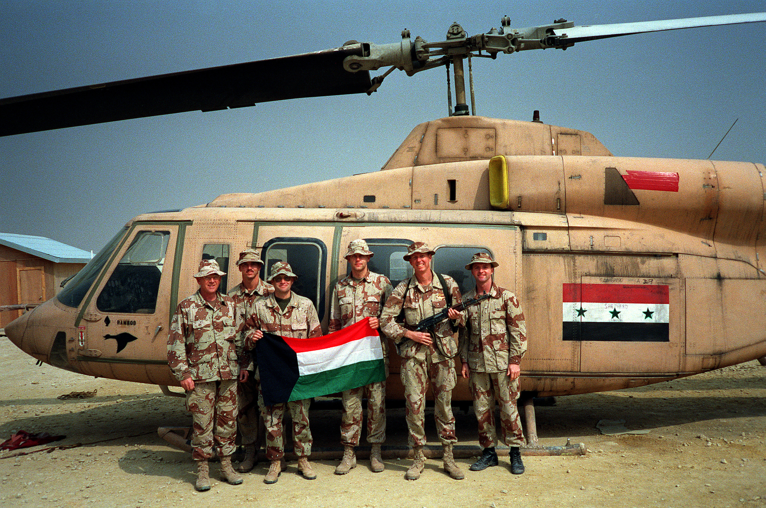 Members of the staff of the 3rd Marine Aircraft Wing (3rd MAW) stand in front of a Iraqi Bell 214ST Super Transport helicopter captured by members of the 1 Marine Expeditionary Force (1 MEF) during Operation Desert Storm. Two of the Marines are holding a Kuwaiti flag and one is holding a 7.62mm AK-47 assault rifle.